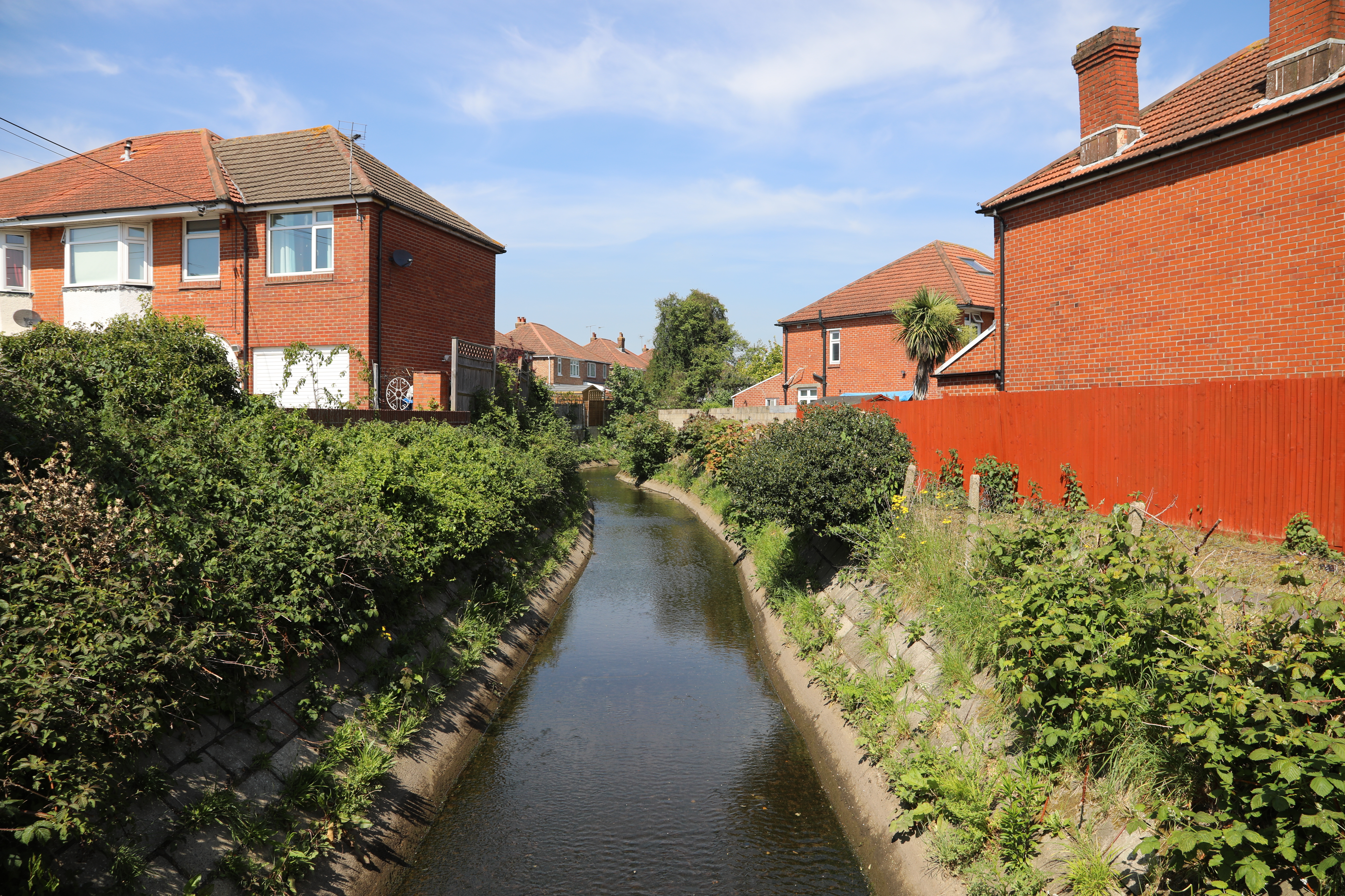 Photo of Tanners brook flowing through Millbrook